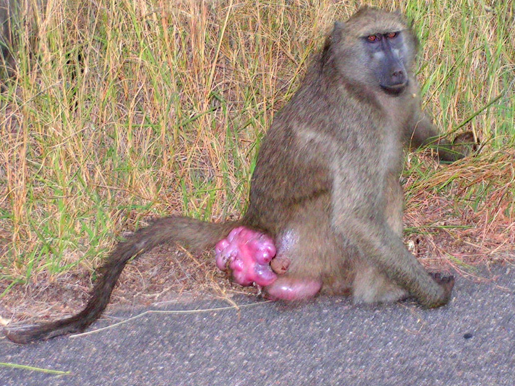 Female Chacma Baboon (Papio ursinus griseipes) in estrus, taken in Kruger Park, South Africa